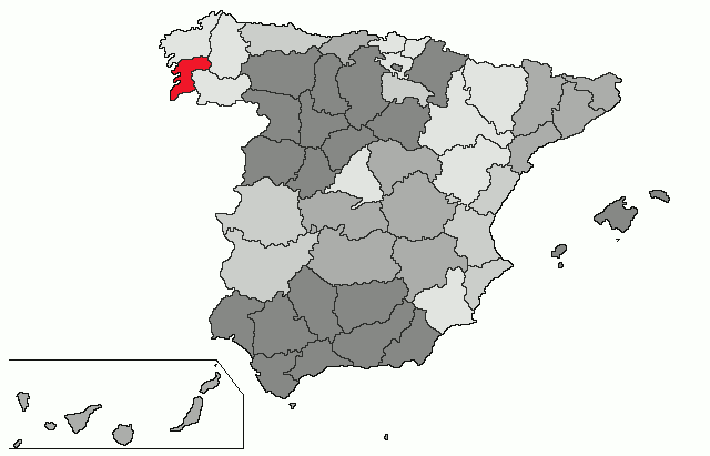 Province of Pontevedra